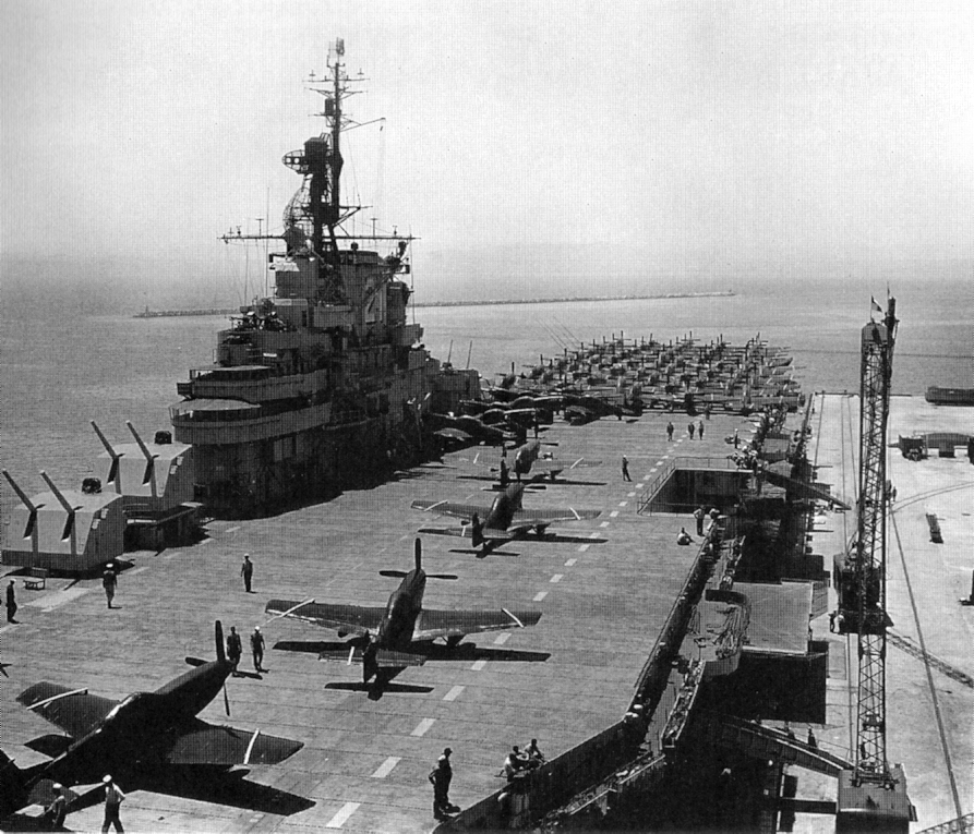 The U.S. Navy aircraft carrier USS Boxer (CV-21) loads 146 U.S. Air Force North American F-51D Mustang fighters aboard at Naval Air Station Alameda, California (USA), for transportation to East Asia in July 1950. On 14-22 July, the ship carried an emergency shipment of 170 Air Force and Navy aircraft, plus personnel and equipment, to the Korean War zone in a record 8 1/2 day trans-Pacific crossing.